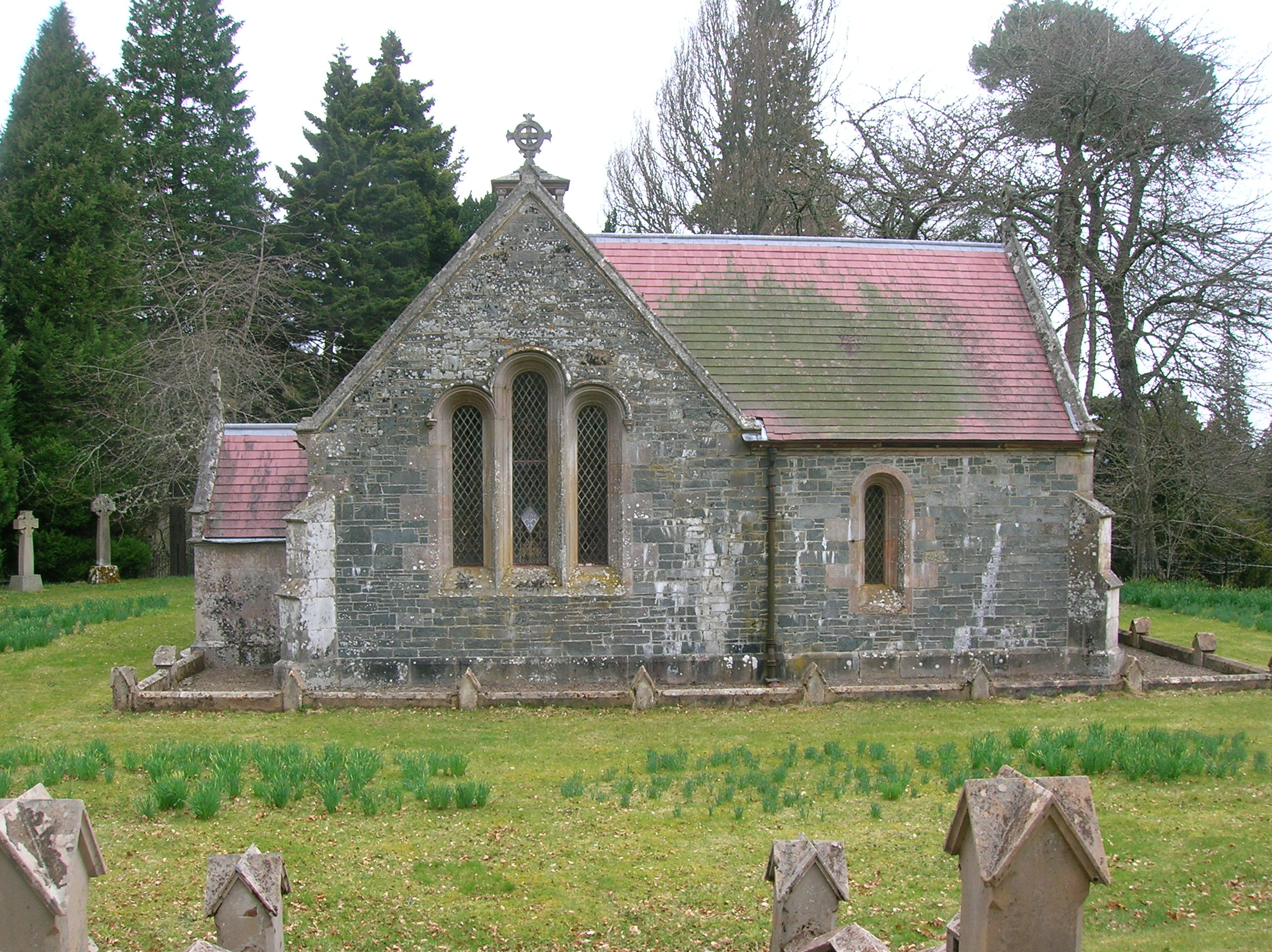 Dawyck Chapel in the Botanic Gardens, Stobo Parish, Borders, Scotland.